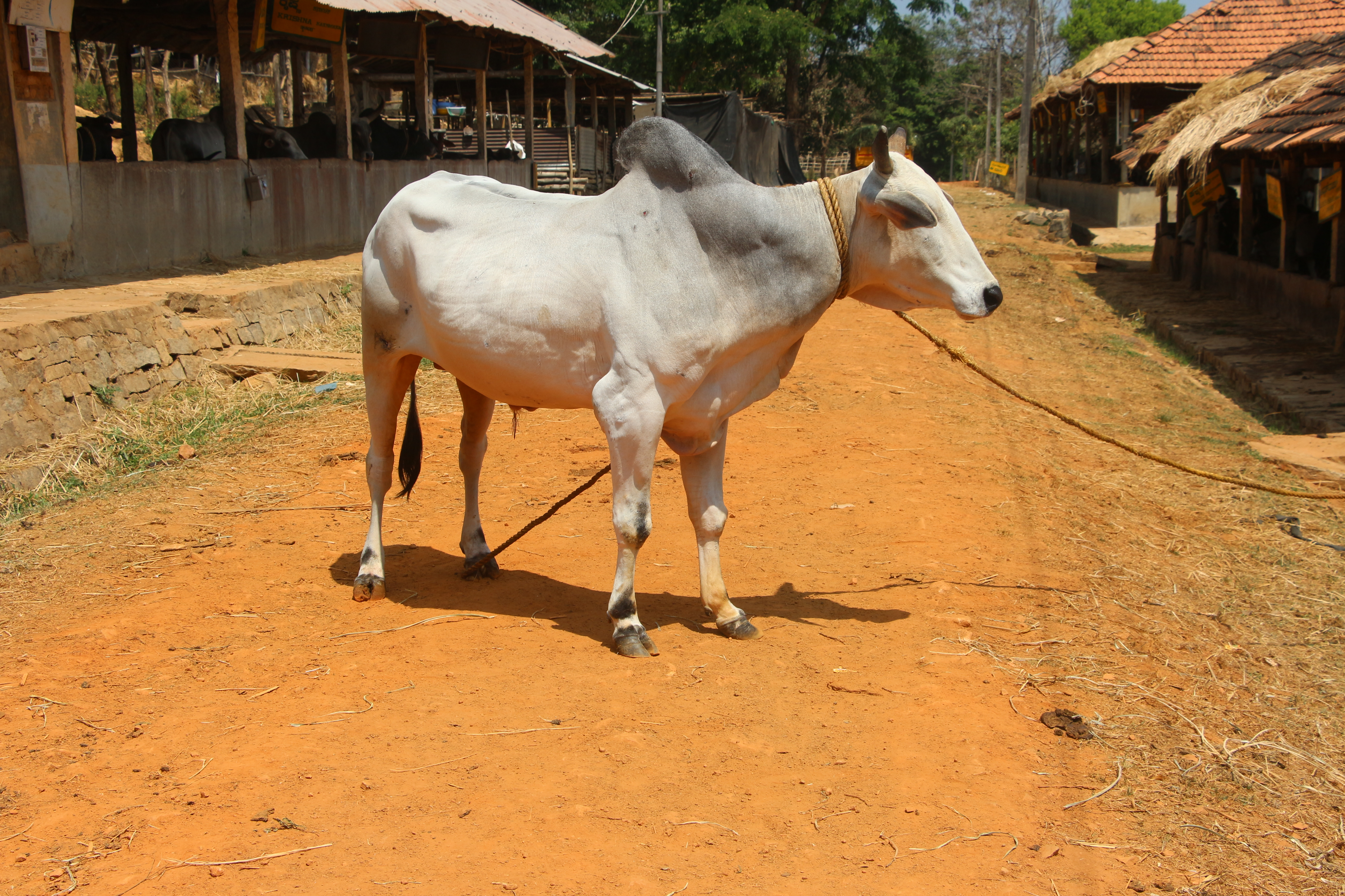 Indian cow breed Hariana ಕನ್ನಡ: ಭಾರತೀಯ ಗೋತಳಿ ಹರಿಯಾಣ